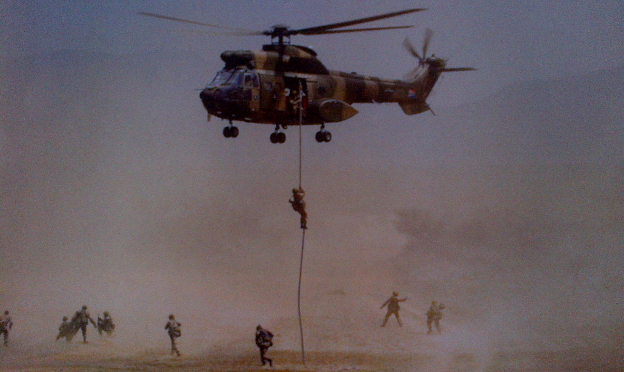 SANDF Airborne Infantry